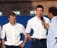 Michael Park and Markko Martin. 2004